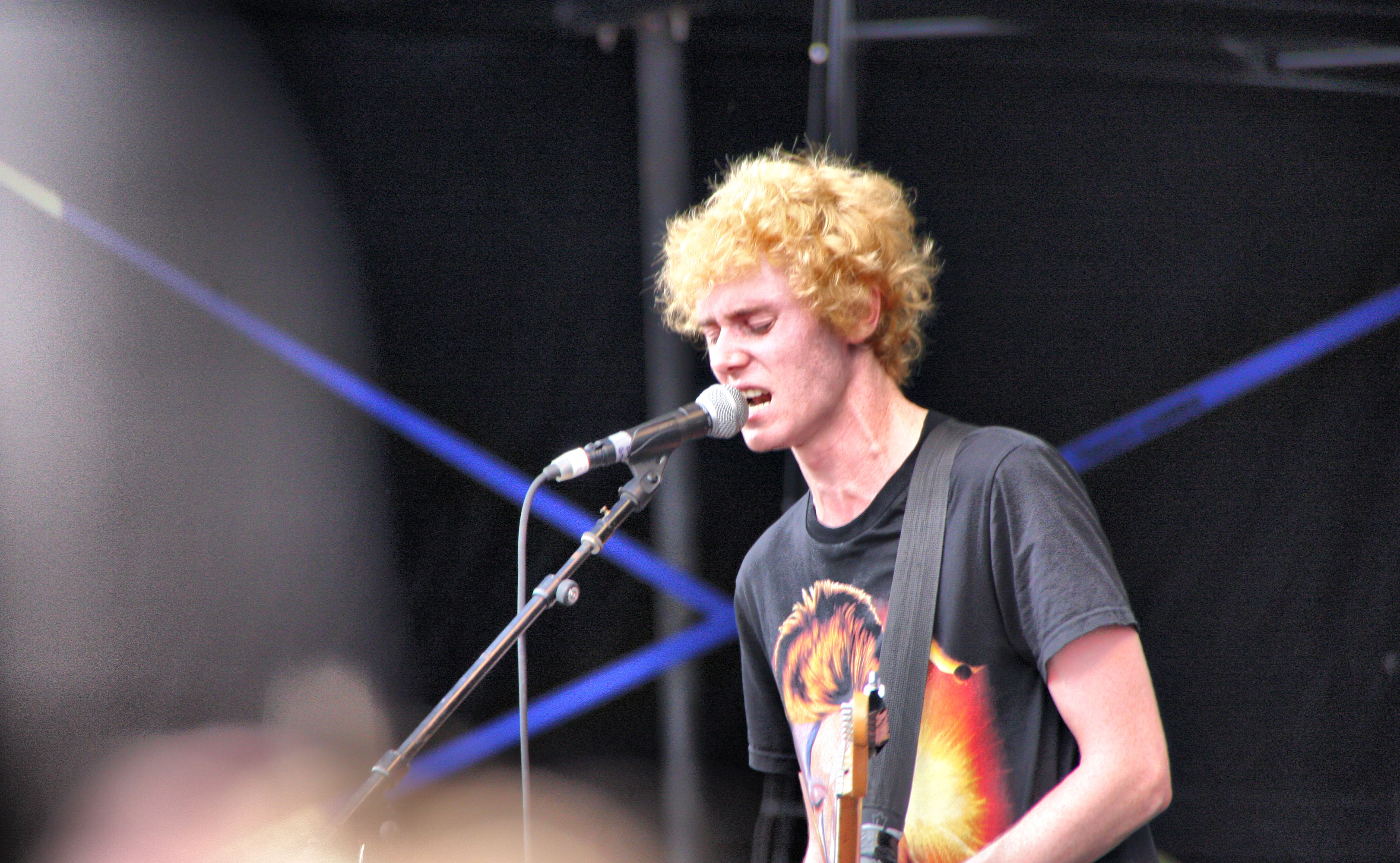 Little Red performing at 2011 Big Day Out in Sydney